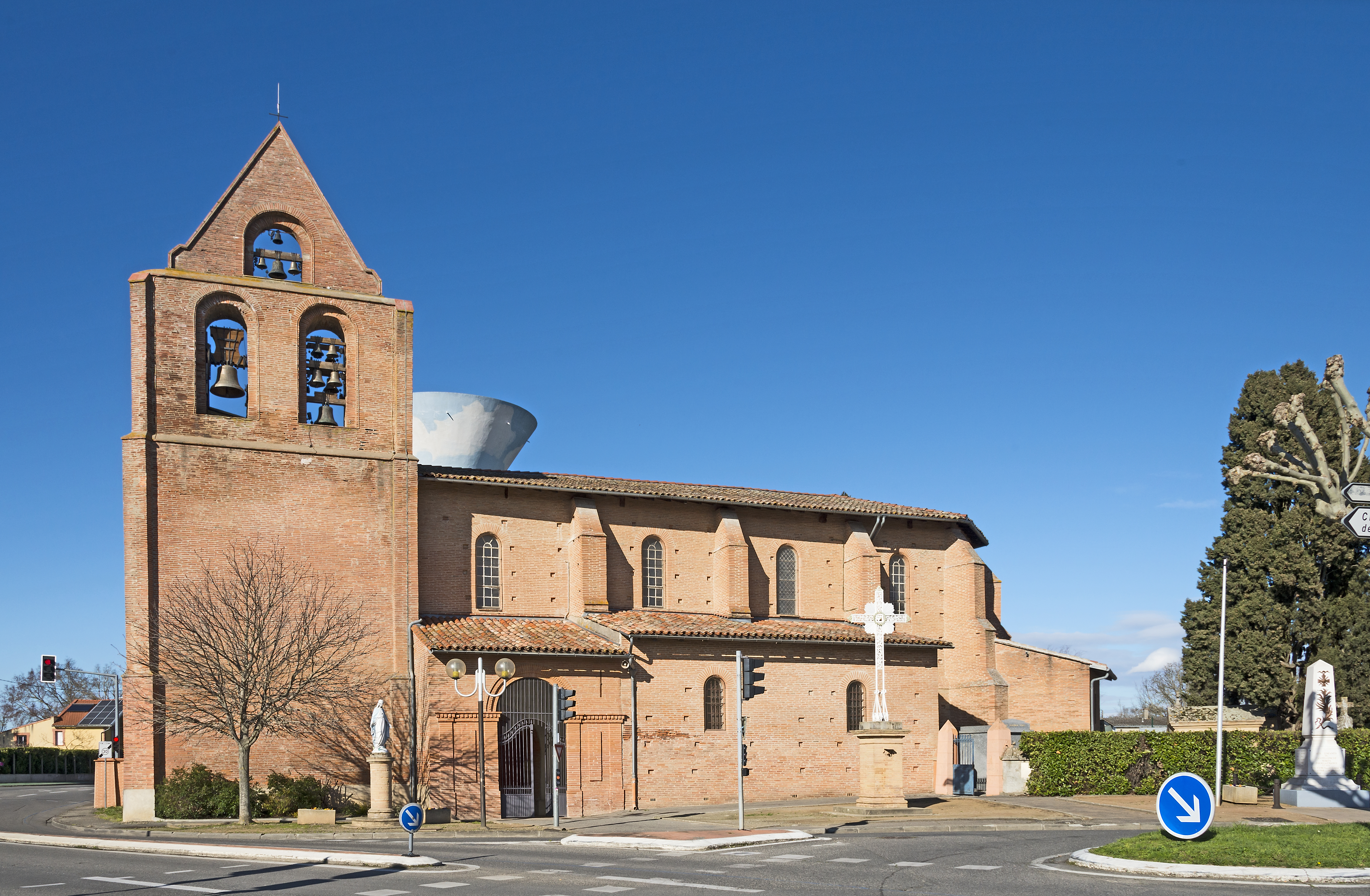 Castelginest. Exterior of Saint-Étienne Church.